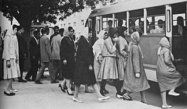 Original caption: "Kabul is served by an up-to-date transportation system."